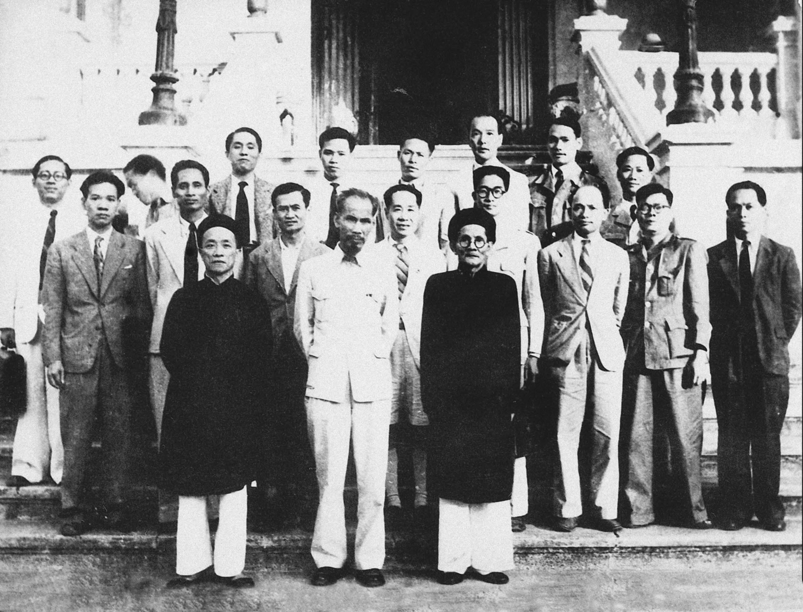 Cabinet of Vietnam Government 1945